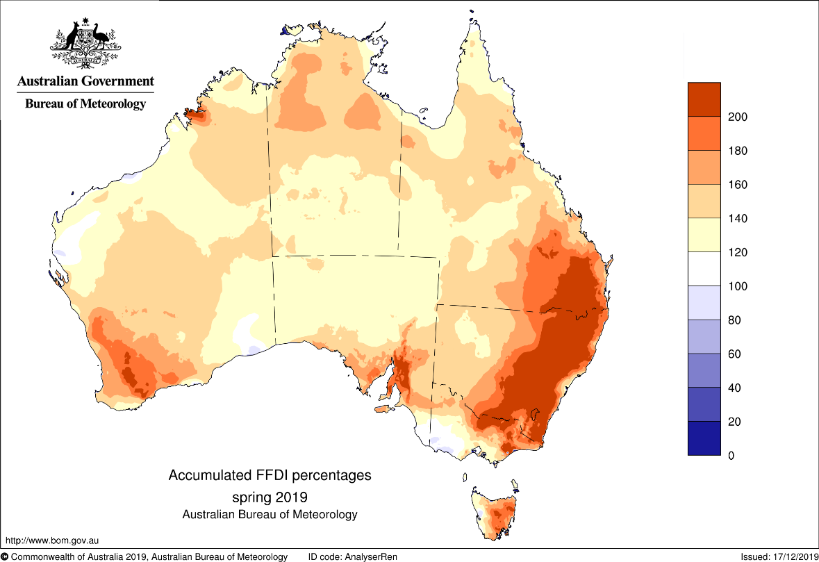 Figure shows areas of Australia's east coast, Kangaroo Island and parts of WA with higher than normal FFDI due to a number of abnormal climate conditions.